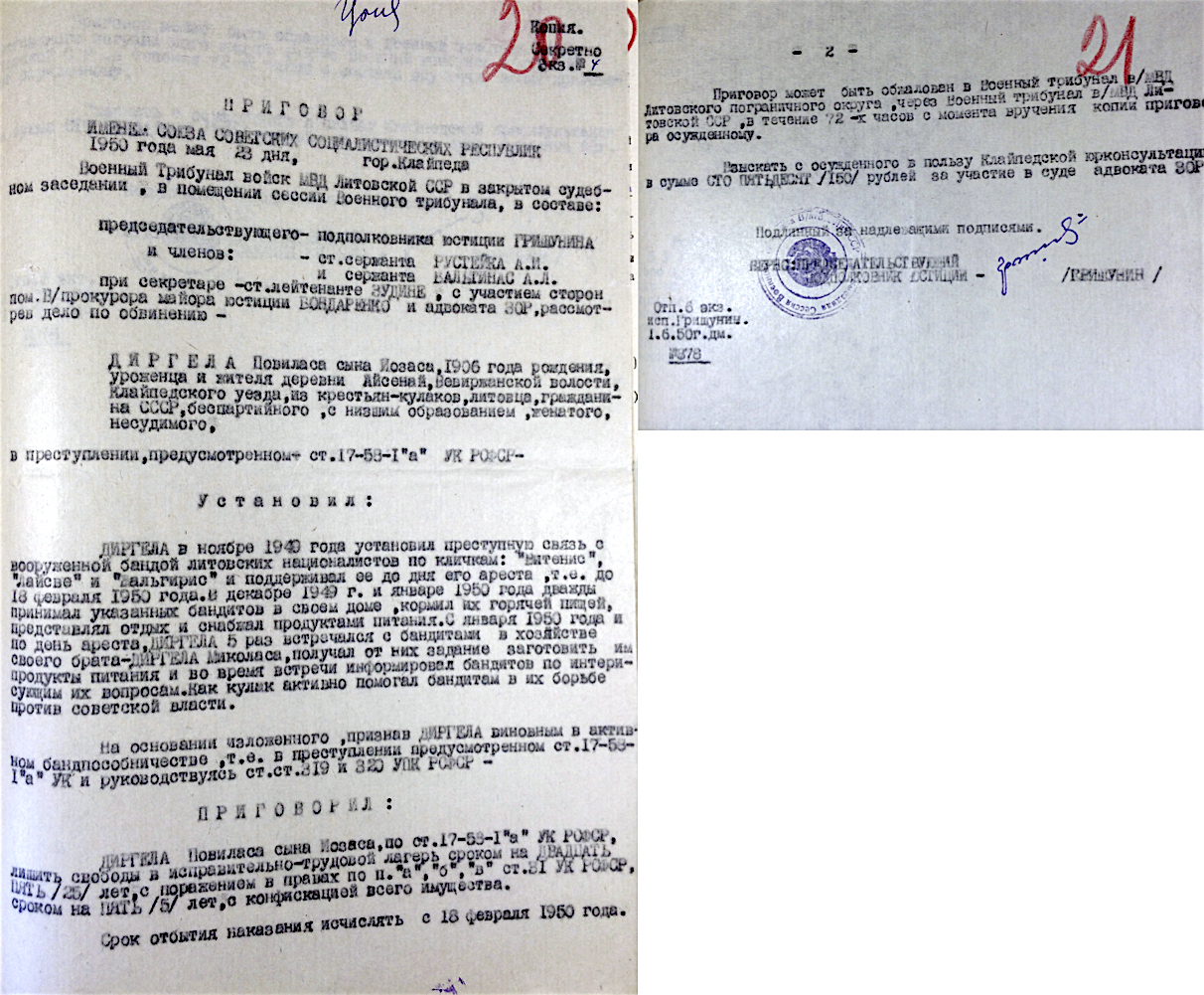 The sentence of the freedom fighters' supporter (25 years in Gulag)